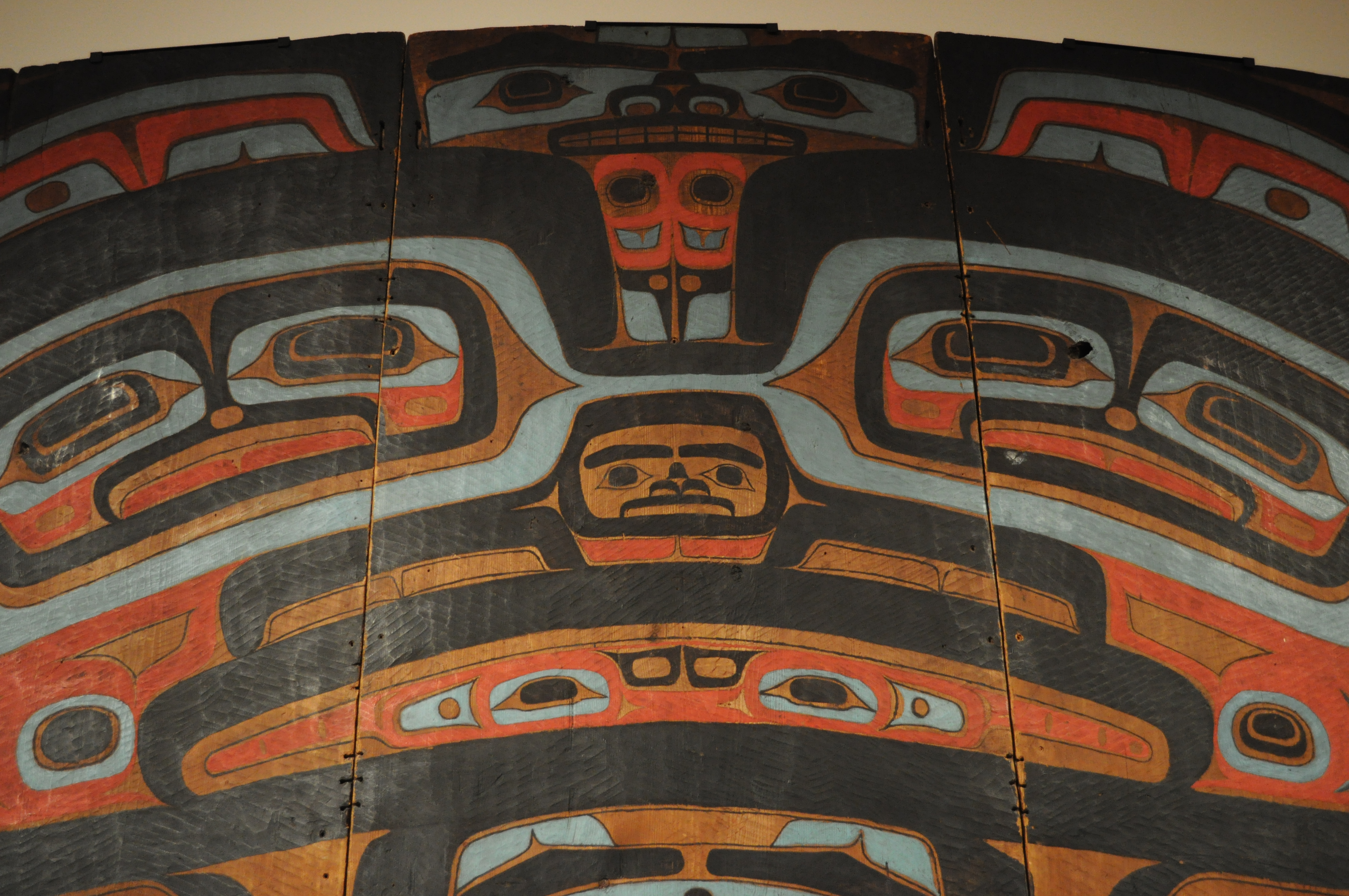 Screen from Tlingit, Gaanax.teidi clan, Klukwan village, Frog House.